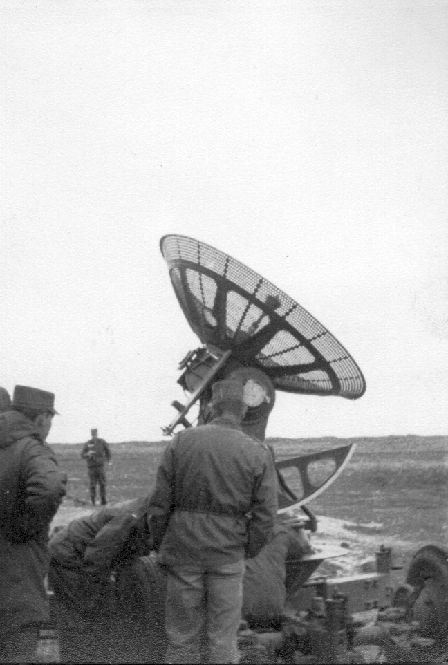 Corporal Missile tracking radar antenna